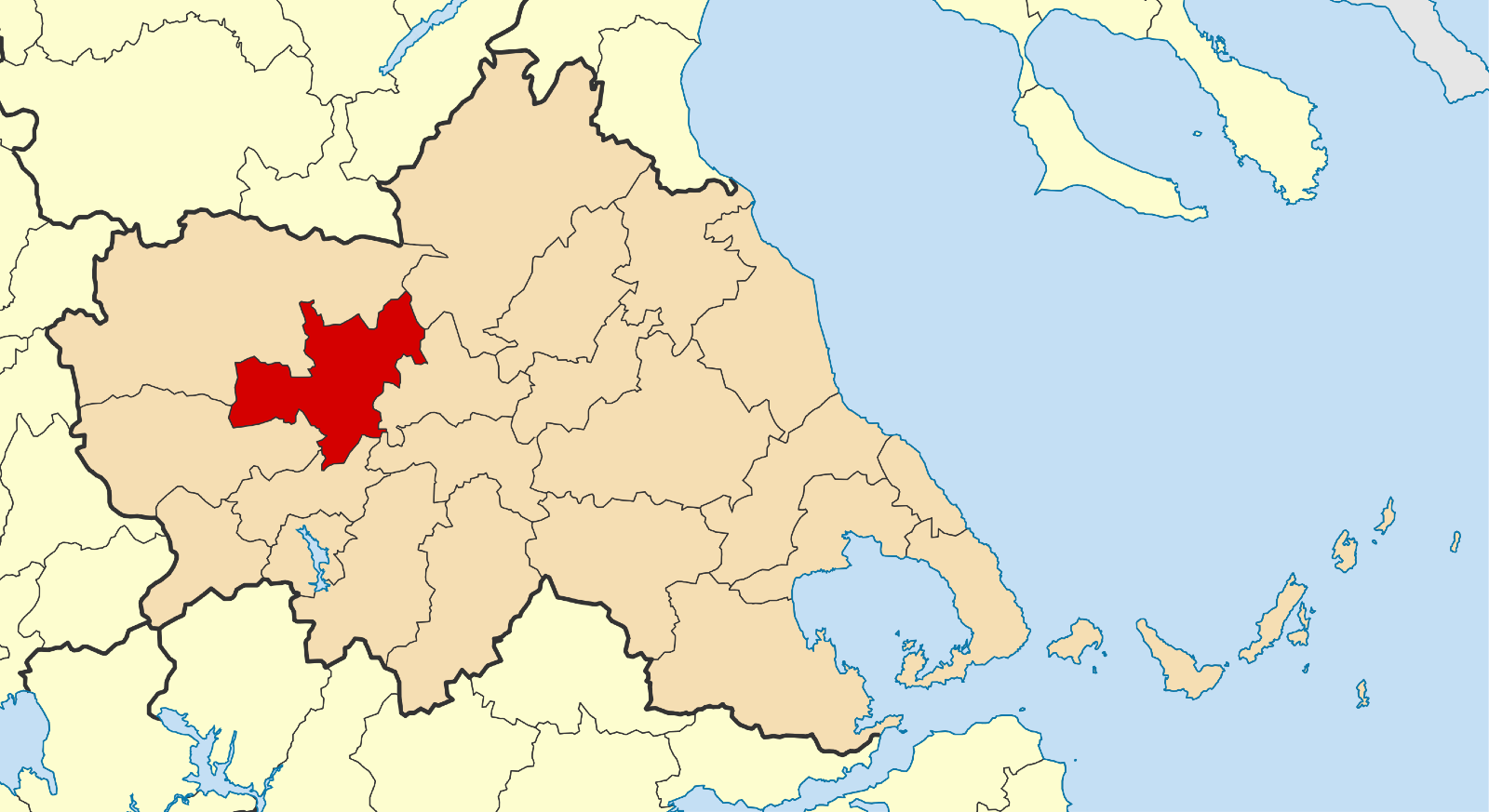 Locator map for Trikala municipality in Greek region Thessaly (2011)